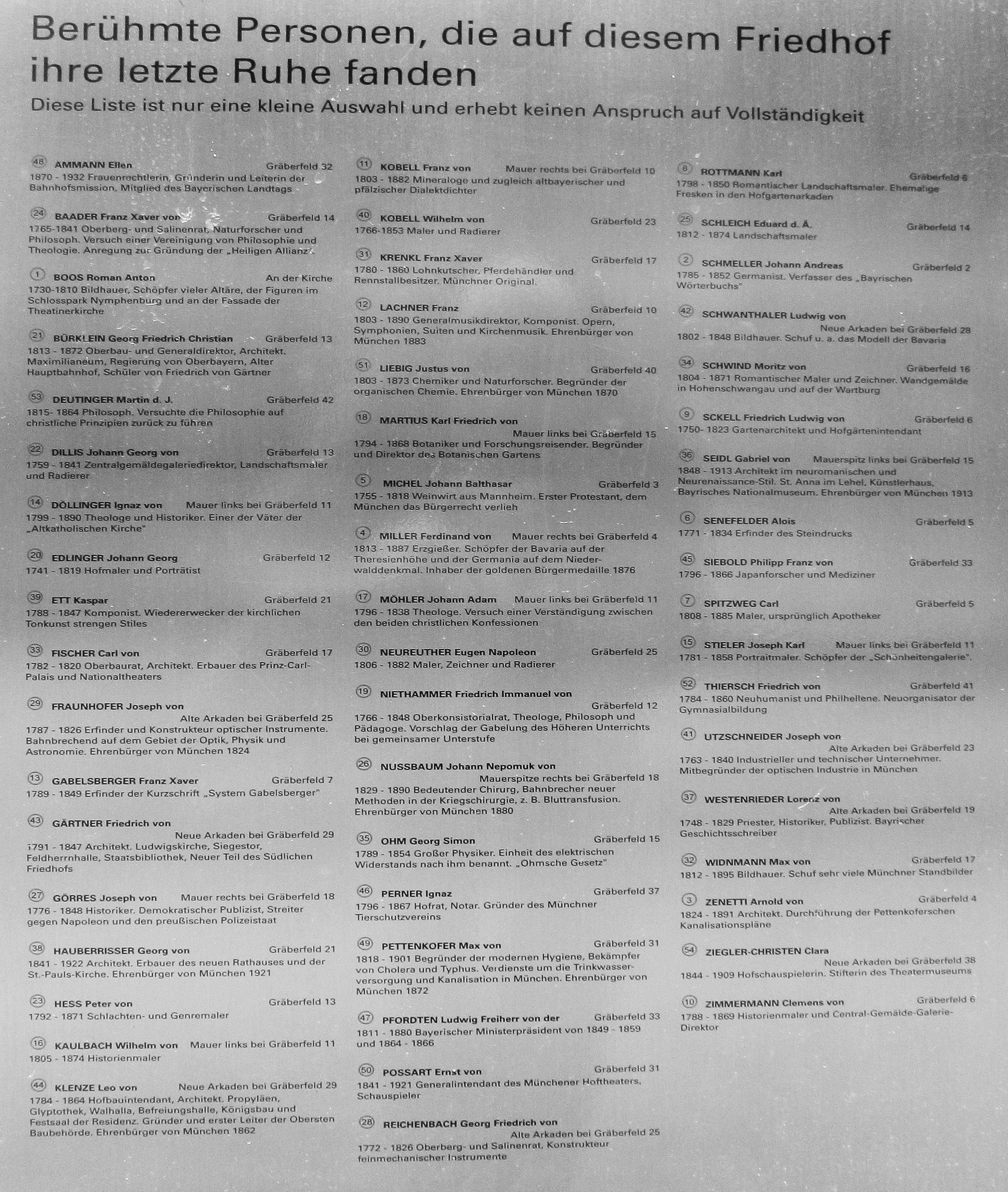 Selection-of-famous-people-Alter-Suedlicher-Friedhof-Muinich